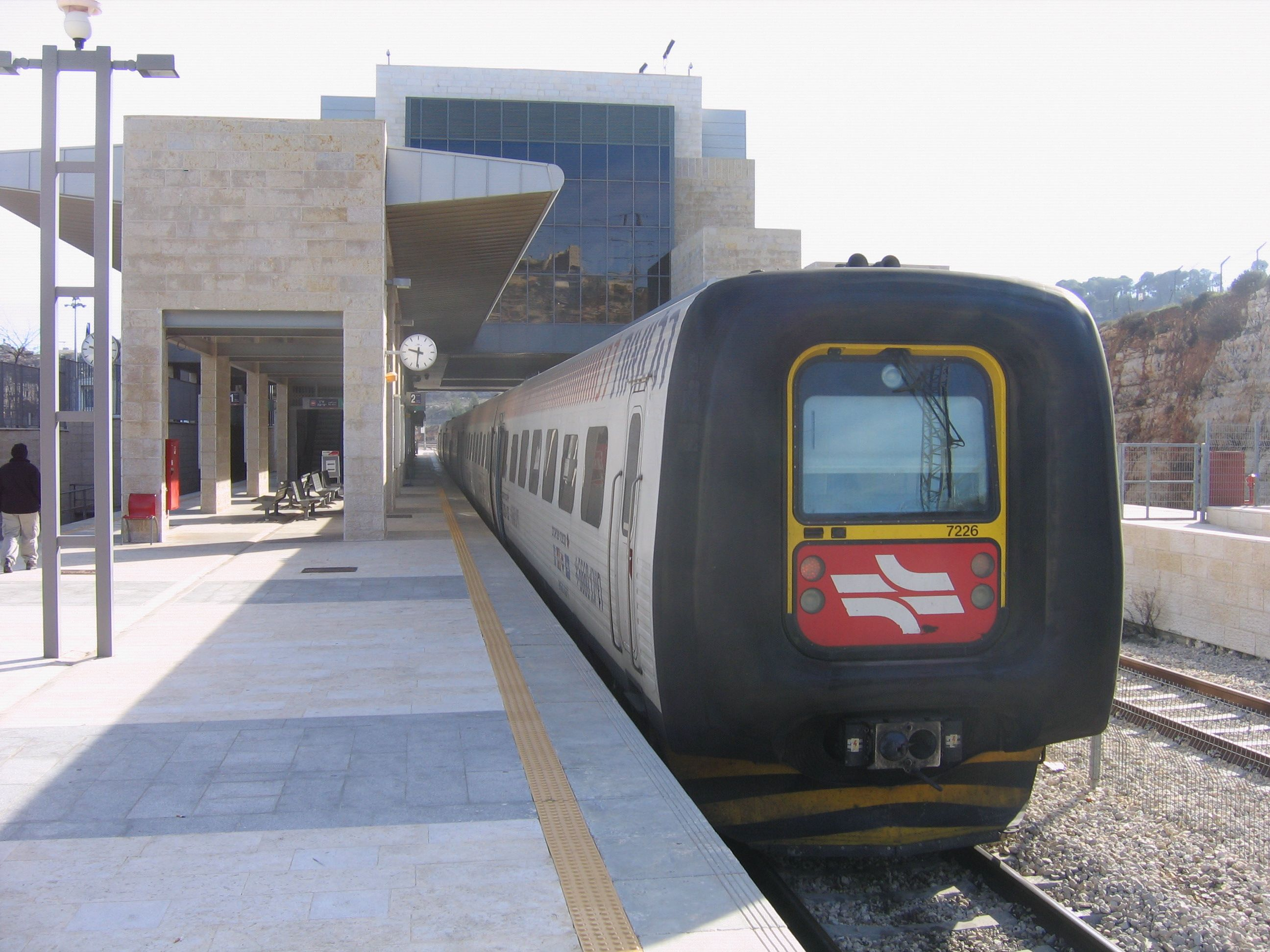 Railway station Jerusalem-Malha